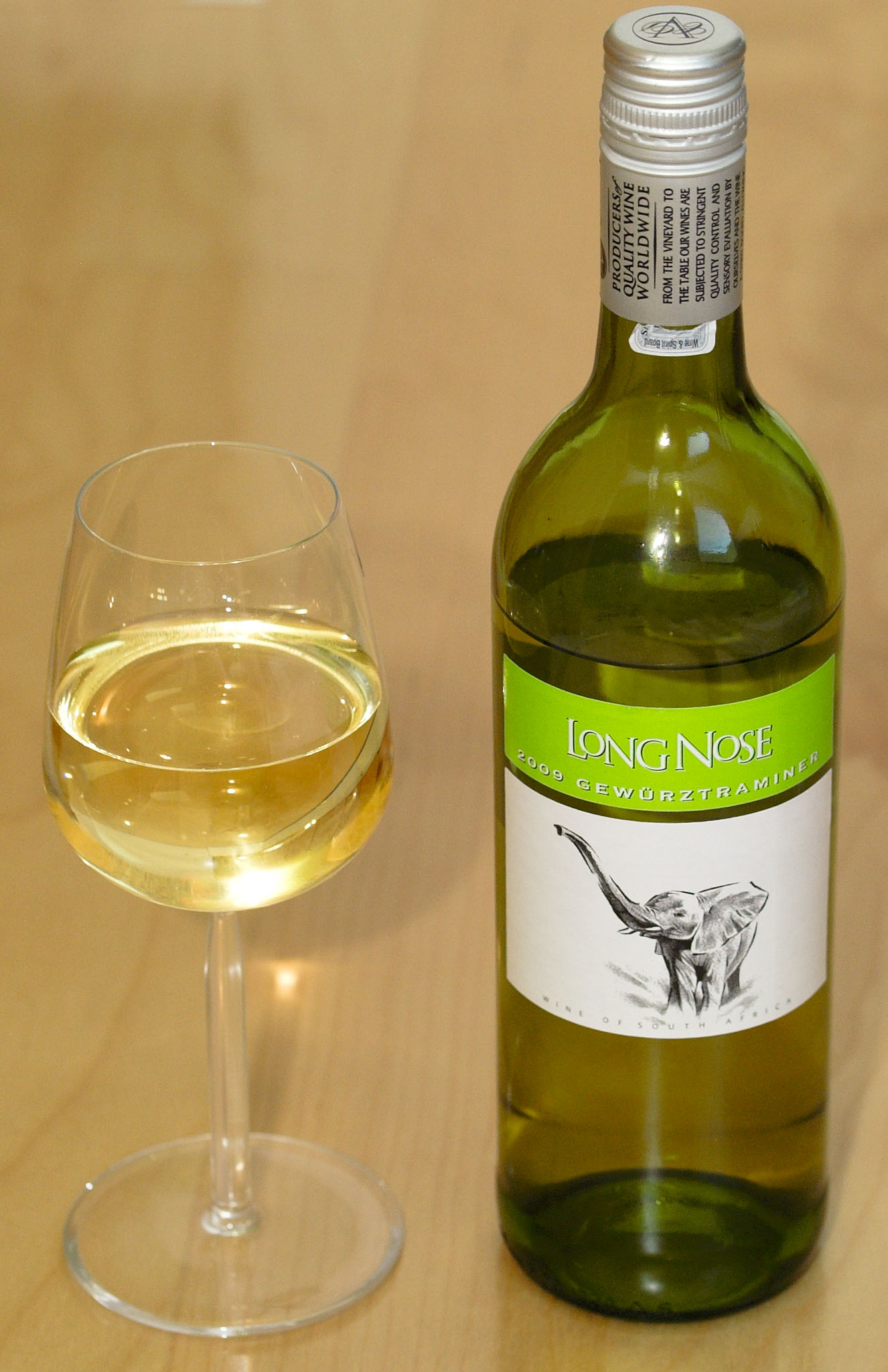 Long Nose Gewürztraminer 2009 (white wine) from South Africa.